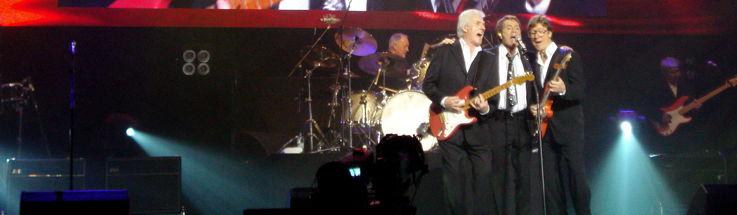 Cliff Richard and the Shadows 2009 - Brussels